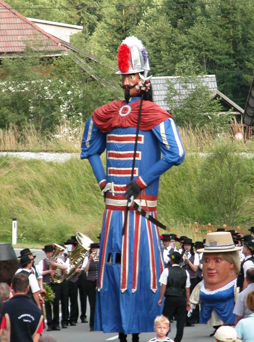 Giant samson and his dwarfts welcomes you in St. Andrae, Austria Brass band Trachtenmusikkapelle St. Andrae